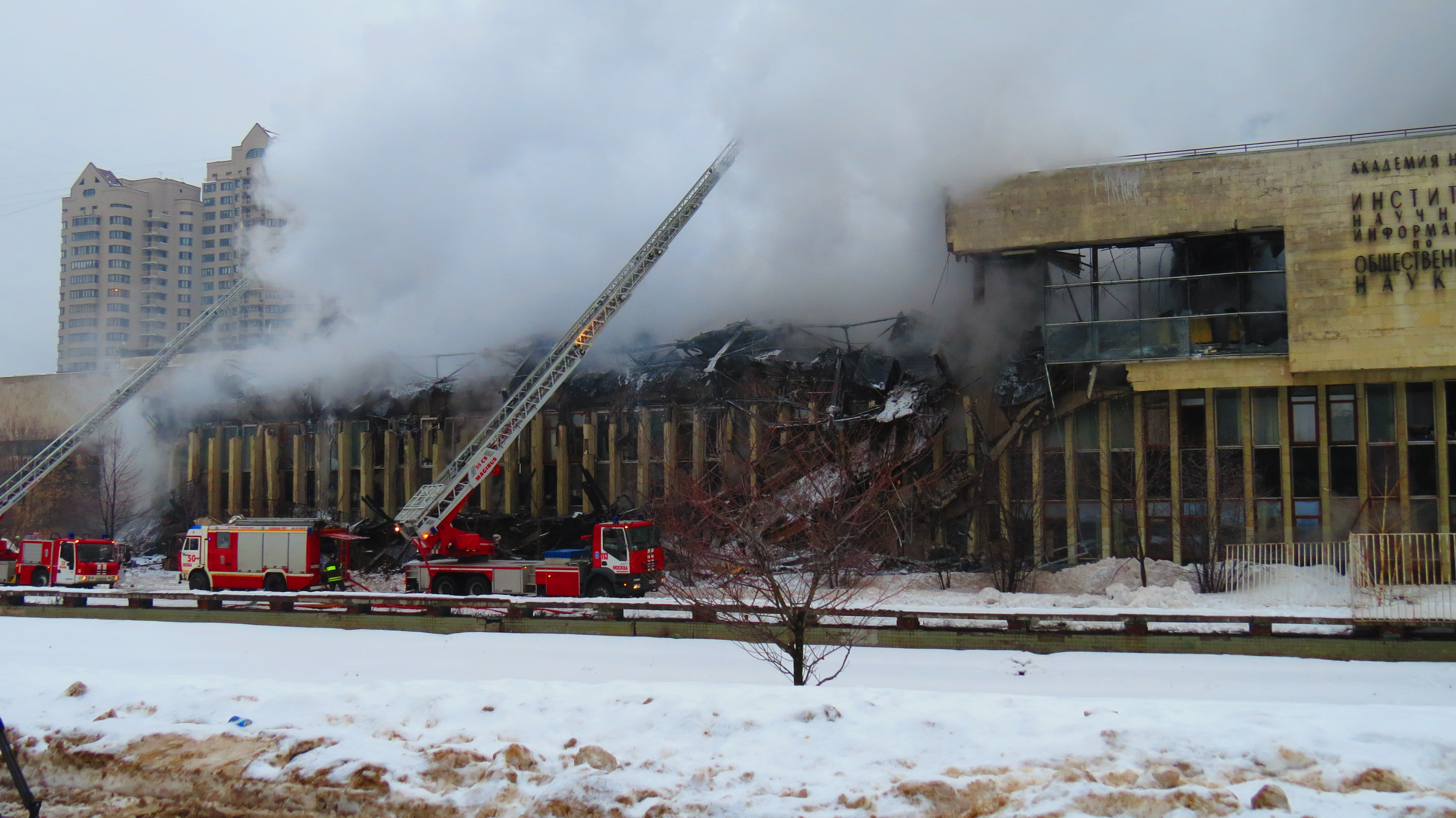 Fire in the Institute of Scientific Information on Social Sciences of Russian Academy of Sciences (31 January 2015)